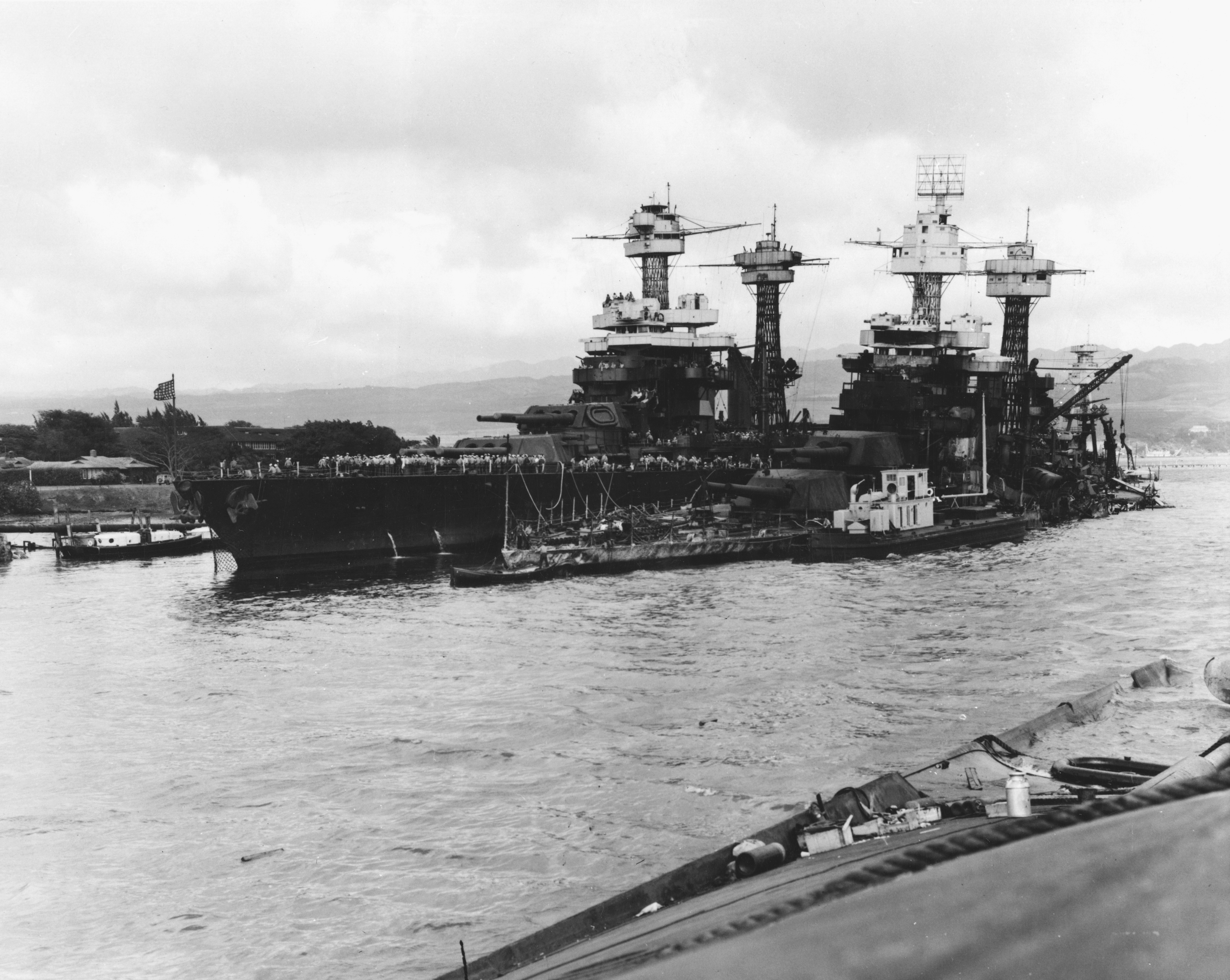 The U.S. Navy battleship USS Tennessee (BB-43), at left, alongside the sunken USS West Virginia (BB-48), photographed from the capsized hull of USS Oklahoma (BB-37) on 10 December 1941, three days after the Japanese raid on Pearl Harbor.